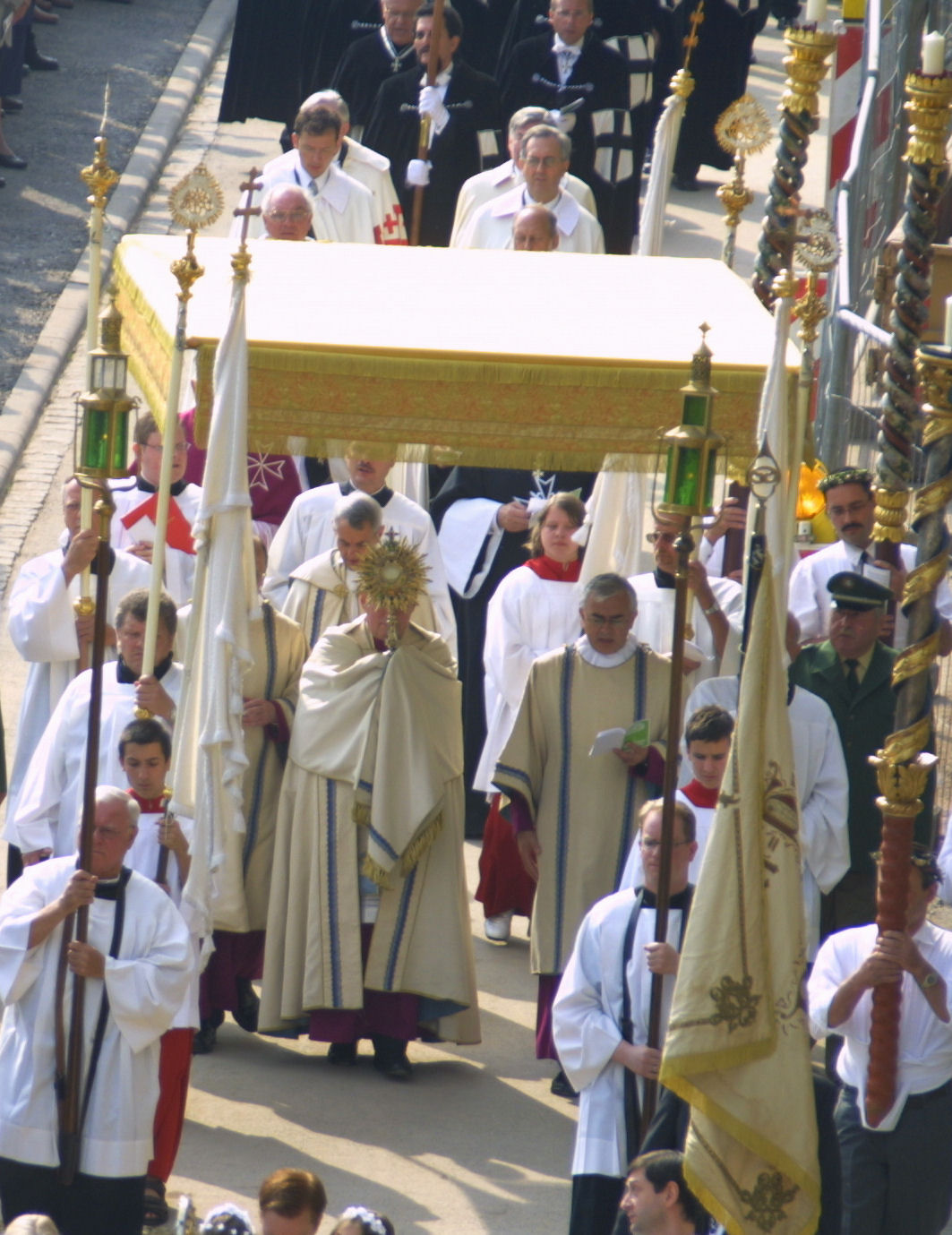 sights of Bamberg, Germany